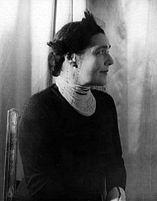 Portrait of Fannie Hurst (1889-1968) Portrait of Fannie Hurst (1889-1968)